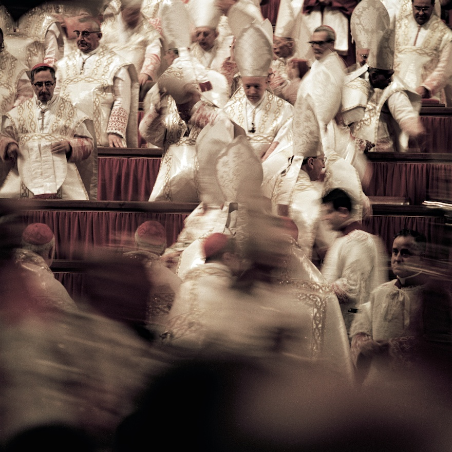 Dispersion of the Fathers Second Vatican Council